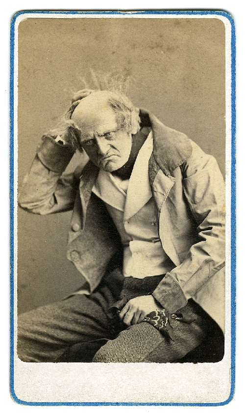 Wincenty Rapacki (1840-1924). Polish actor